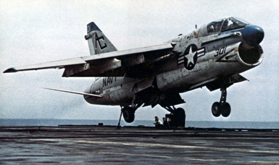 A U.S. Navy Ling-Temco-Vought A-7A Corsair II from Attack Squadron VA-37 Bulls landing abord the aircraft carrier USS Saratoga (CVA-60). VA-37 was assigned to Carrier Air Wing 3 (CVW-3) aboard the Saratoga for a deplyoment to Vietnam from 11 April 1972 to 13 February 1973. Note that the aircraft is armed with an AIM-9D Sidewinder missile.